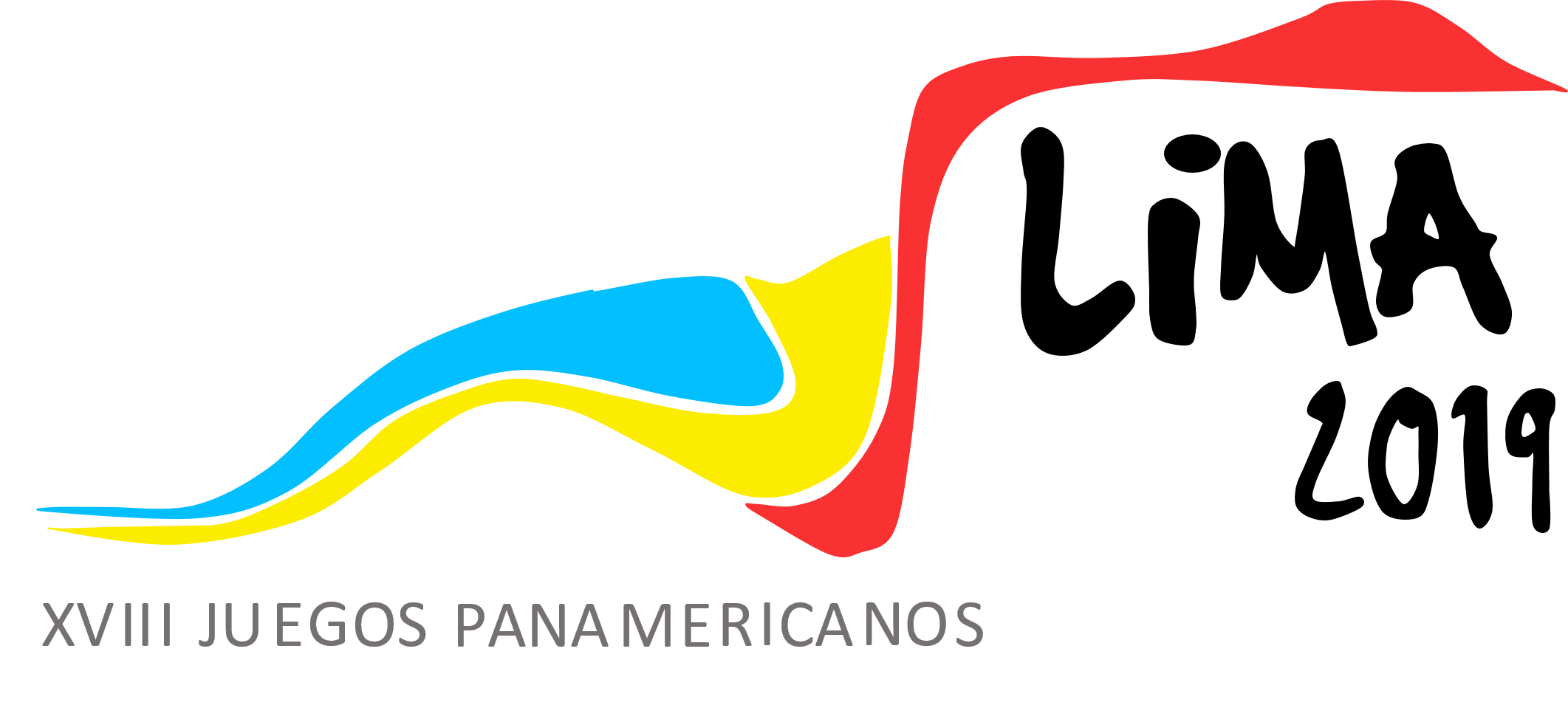 Logo that Lima offered as a candidate city to host the XVIII Pan American Games in 2019.